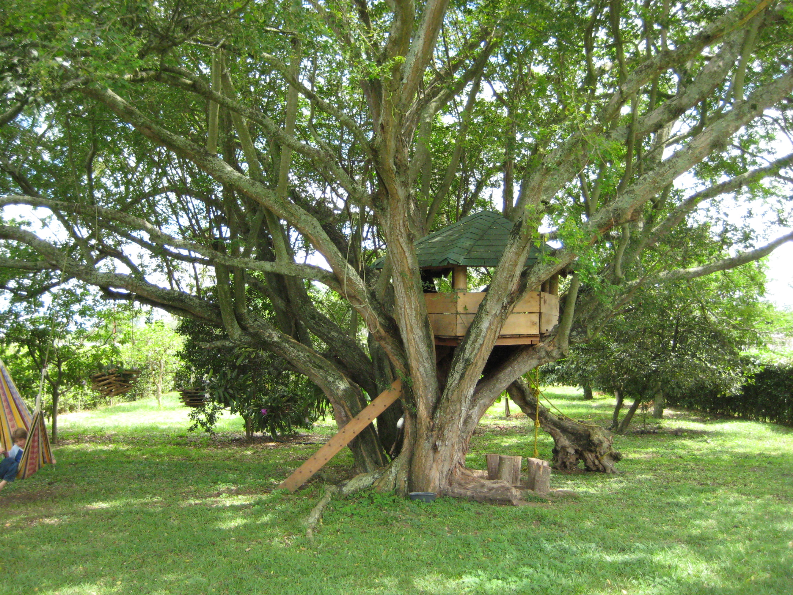 Boomhut in La union in Valle de cauca, Colombia